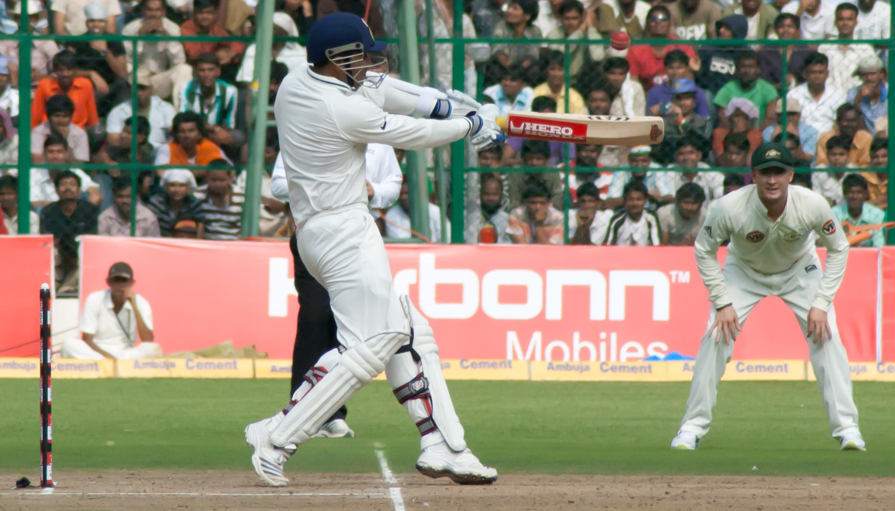 Virender Sehwag plays a hook shot as Michael Clarke on Day 2 of the Second Test of the Border Gavaskar Trophy 2010 - 11. Virender Sehwag got out on this shot.